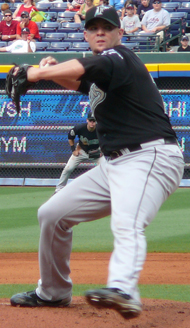 Picture I took of Henry Owens on 6-5-07 21:28, 7 June 2007 . . Chrisjnelson . . 190×328 (116,990 bytes)